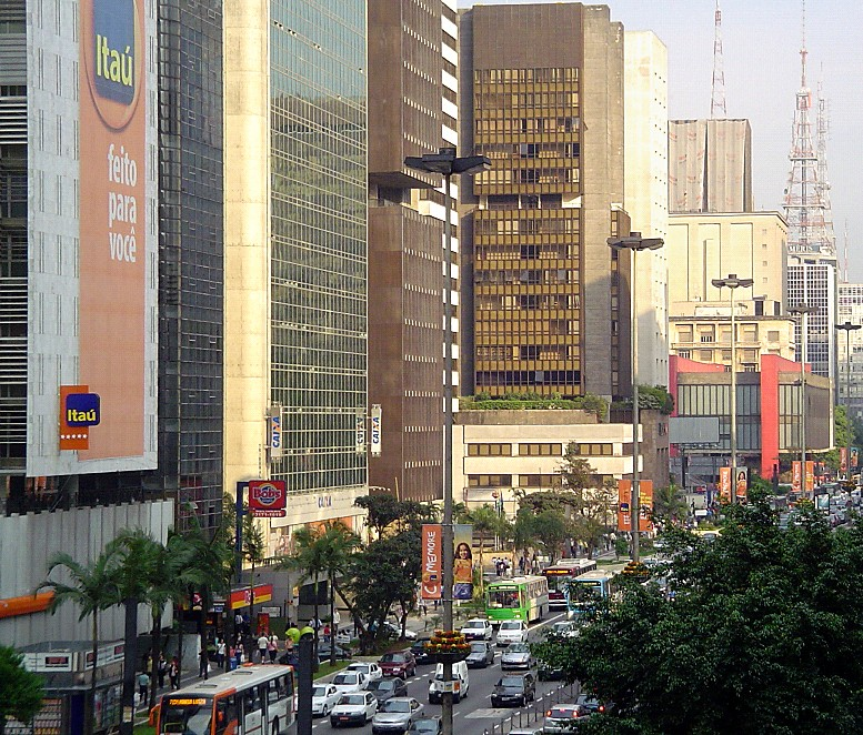 Office buildings in Paulista avenue